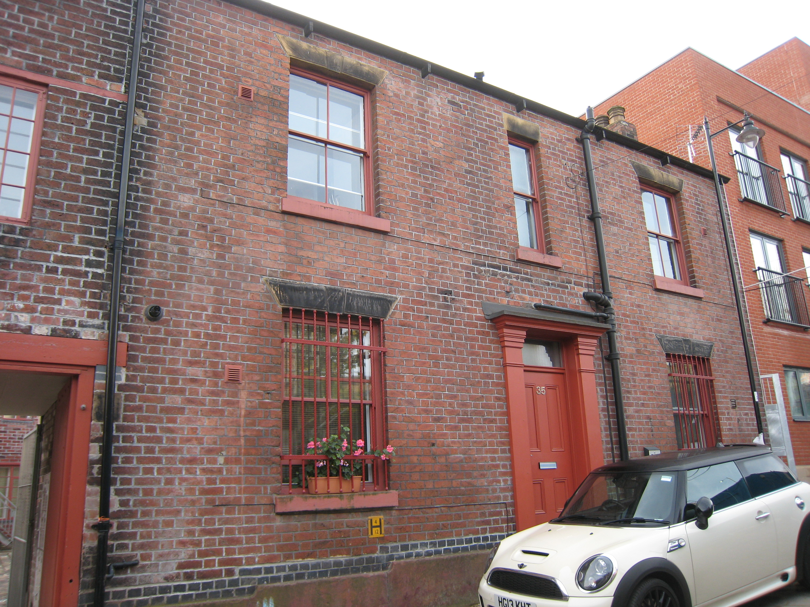 35 Well Meadow Street, Netherthorpe, Sheffield S3 7GS. Former industrial complex with furnace for making steel and cutlery works. This is the owner's house.